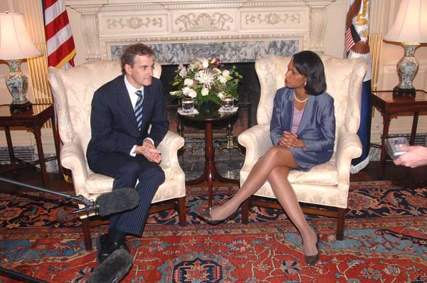 Secretary Rice held a bilateral meeting with Minister of Foreign Affairs of Norway Jonas Gahr Stoere.